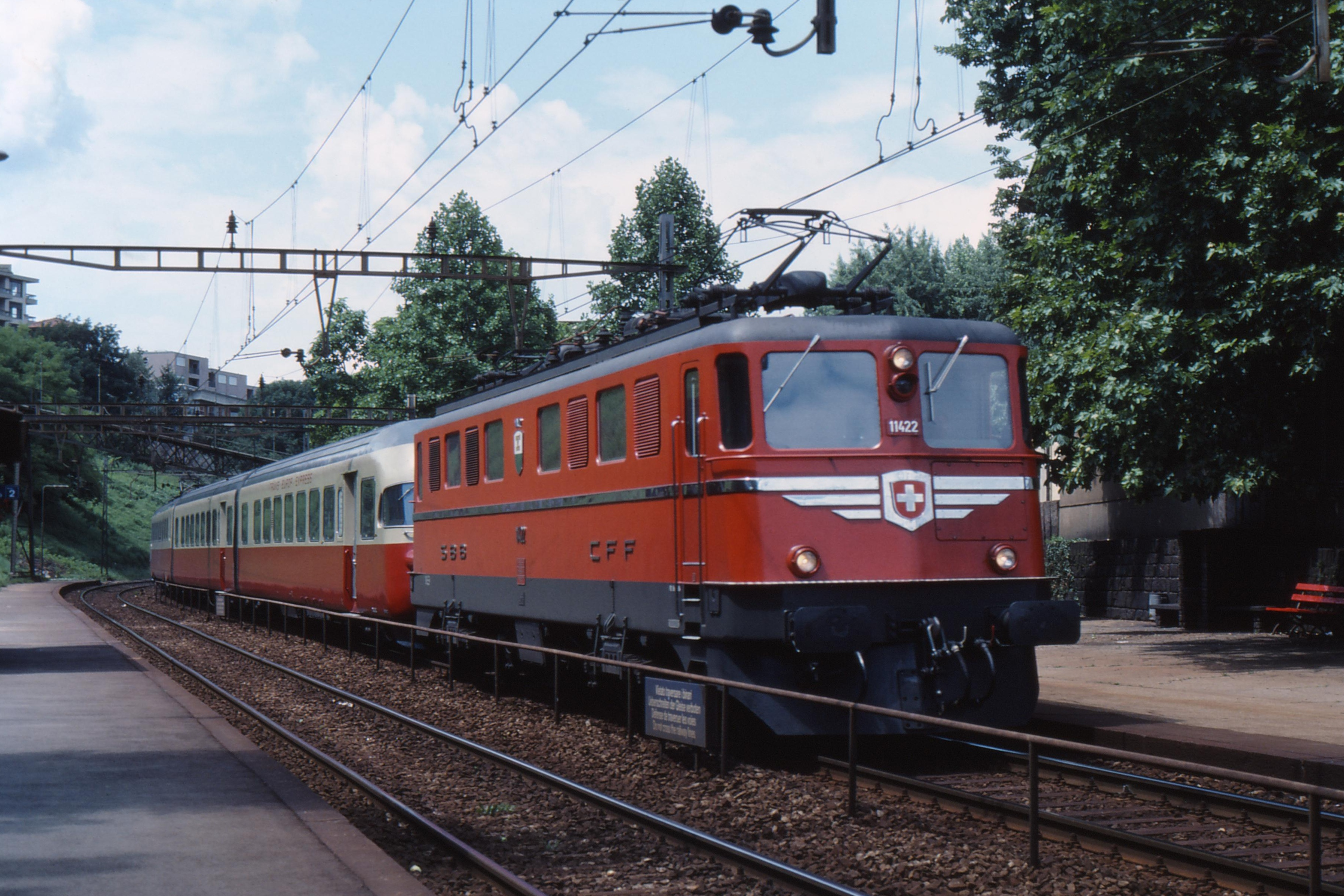 Swiss Rail Gotthard TEE towed by Ae 6/6 11422 at Lugano Paradiso Station, Switzerland